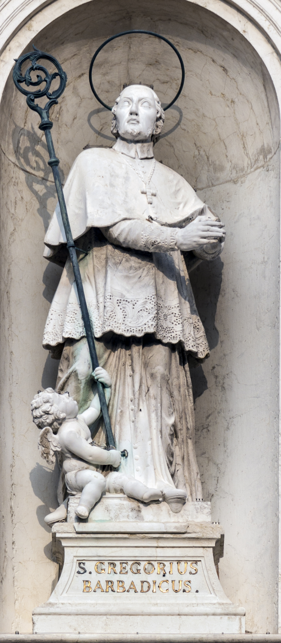 Church of San Rocco in Venice - Facade - Statue of Saint Gregorio Barbarigo by Giovanni Marchiori.